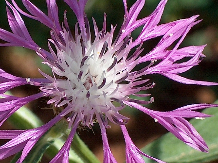 Centaurea napifolia, particular of the flowers